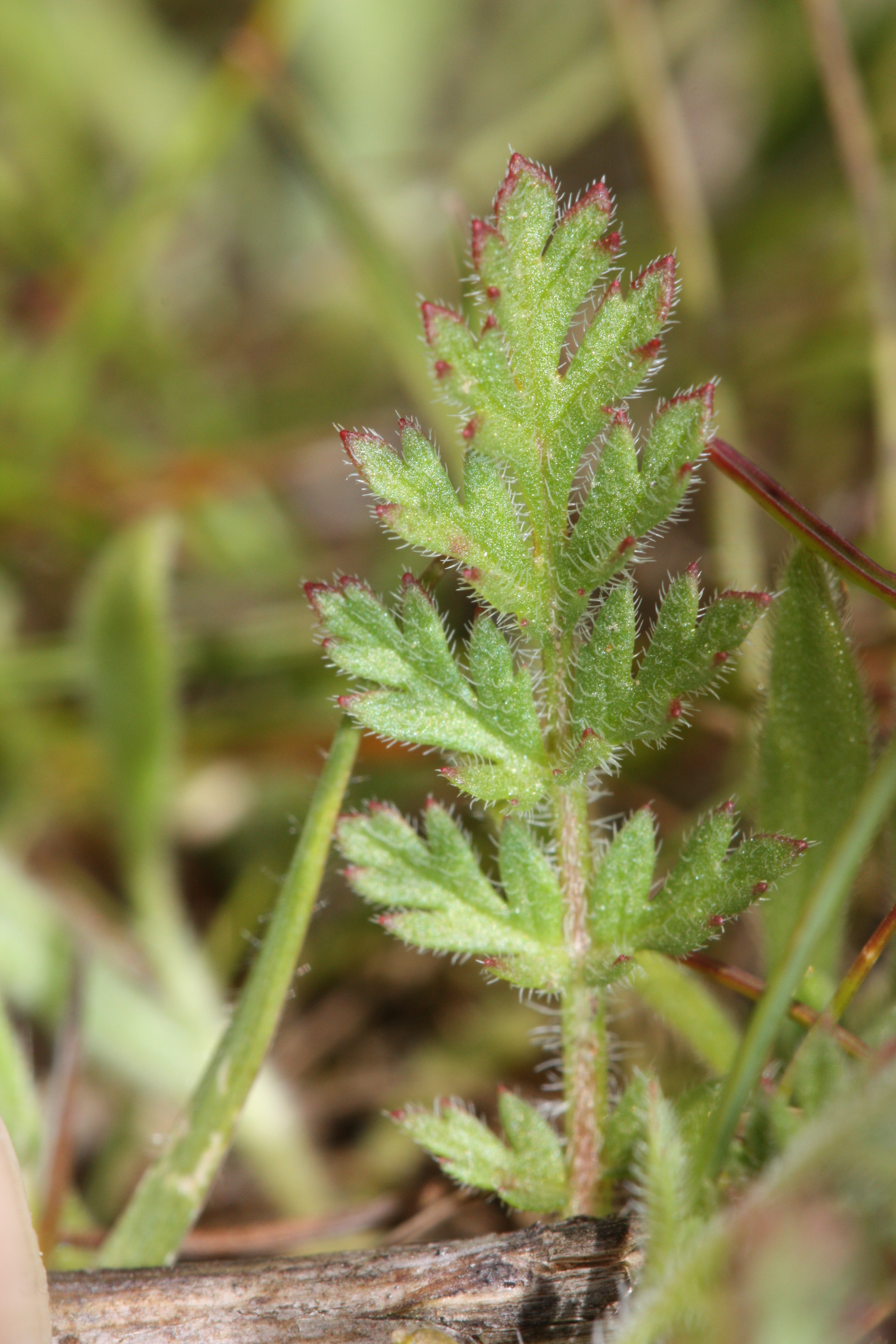 Redstem Stork's Bill, Common Stork's Bill Viewpoint location: McCall Point Trail, Tom McCall Preserve Viewpoint elevation: 526 meter (1727 ft) Location source: Garmin GPSmap 60CSx Location Datum: WGS84